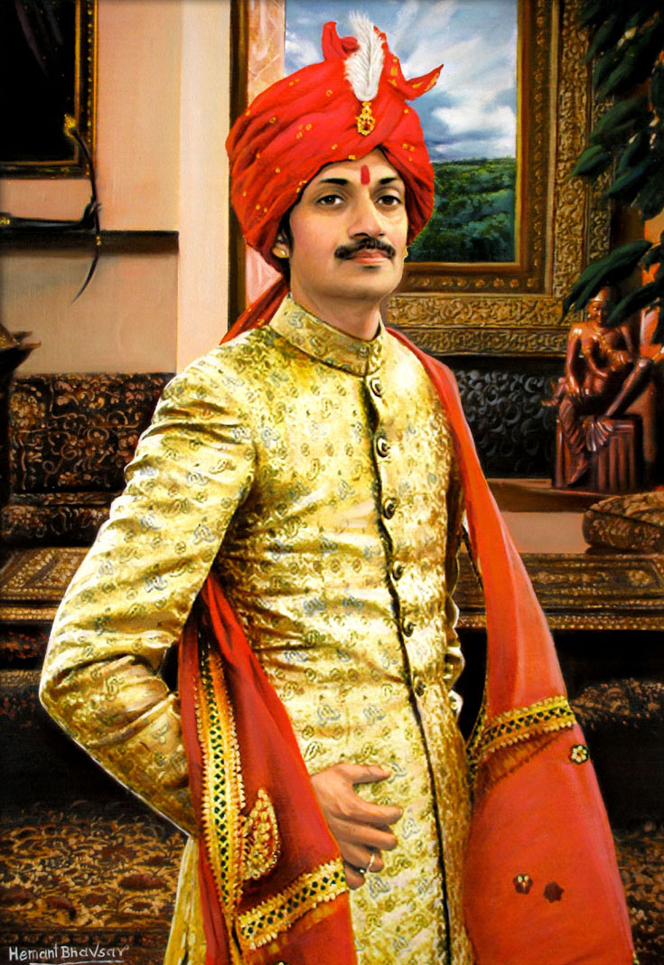 Manvendra Singh Raghubir Singh is a Hindu belonging to the royal family of the former princely state of Rajpipla in India.